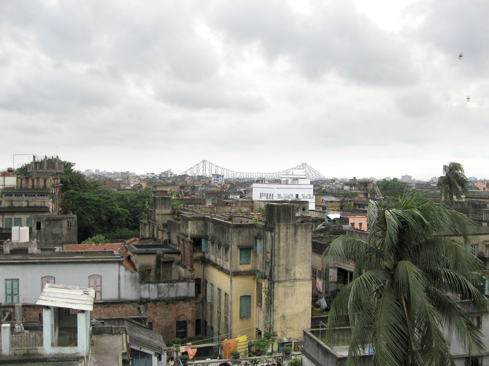 Shovabazar area in north Kolkata (Calcutta).